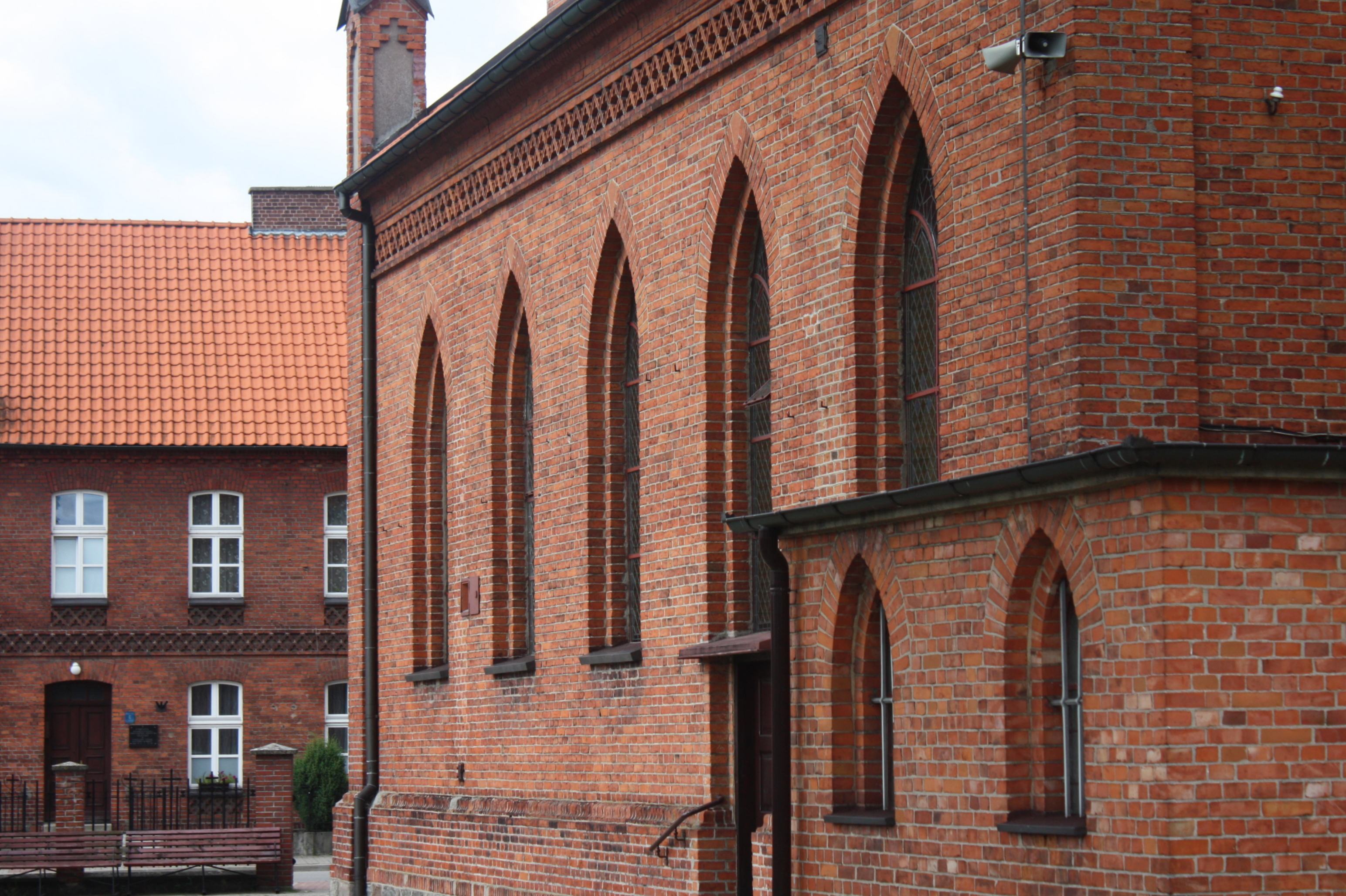 This photo of Warmian-Masurian Voivodeship was taken during Wikiexpedition 2012 set up by Wikimedia Polska Association. You can see all photographs in category Wikiekspedycja 2012. The making of this document was supported by Wikimedia Polska.